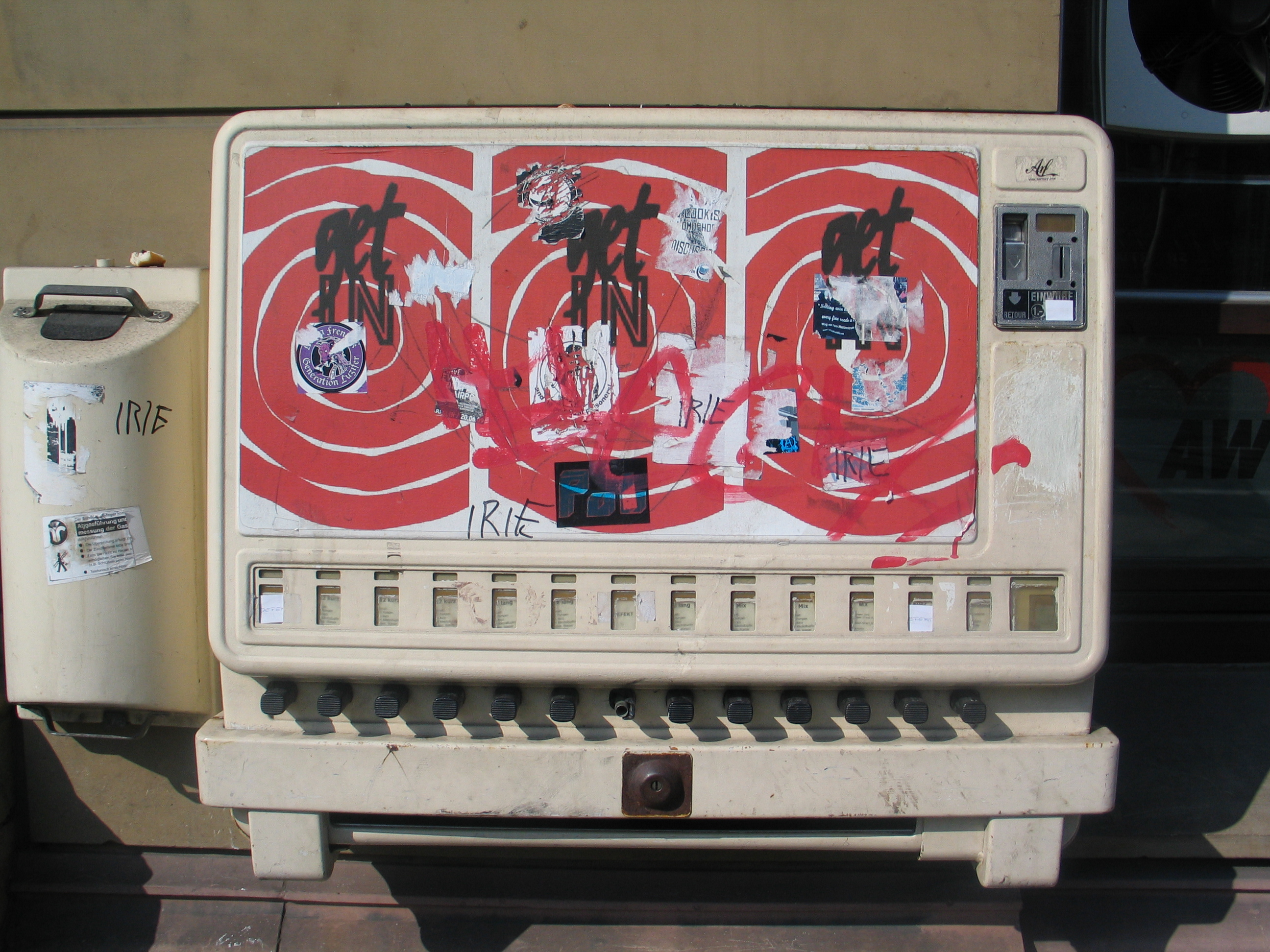 Injection teller in Karlsruhe